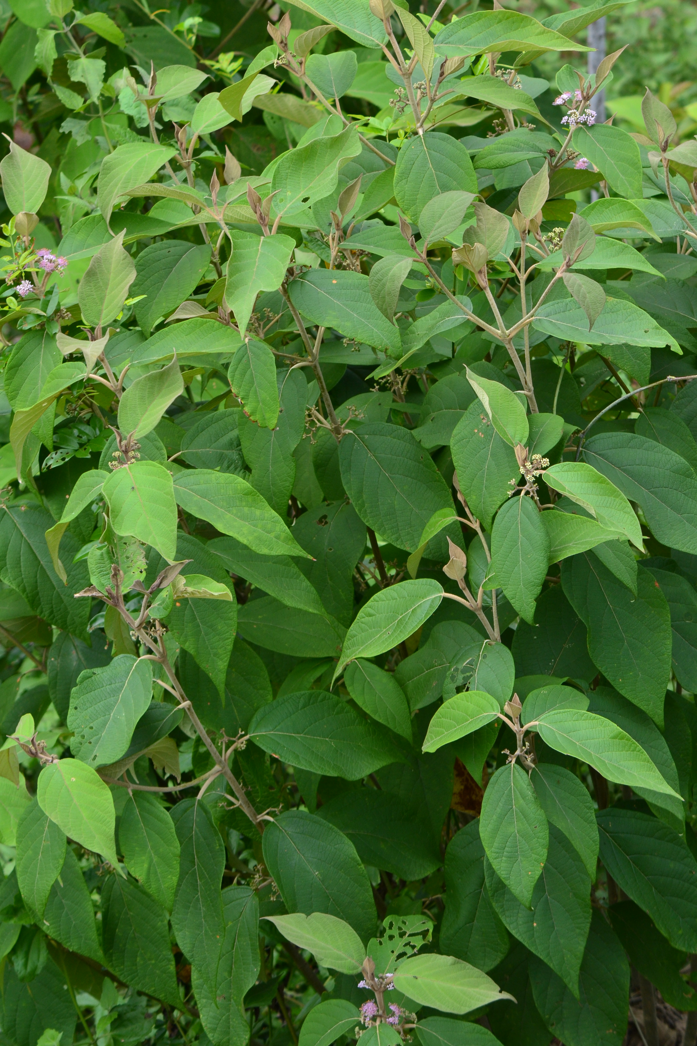 Callicarpa tomentosa